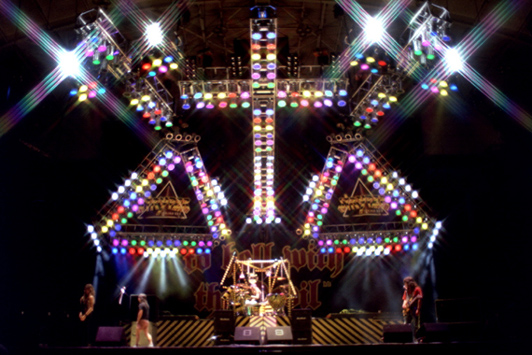 United States glam metal musical group Stryper at concert during To Hell with the Devil Tour in 1986.